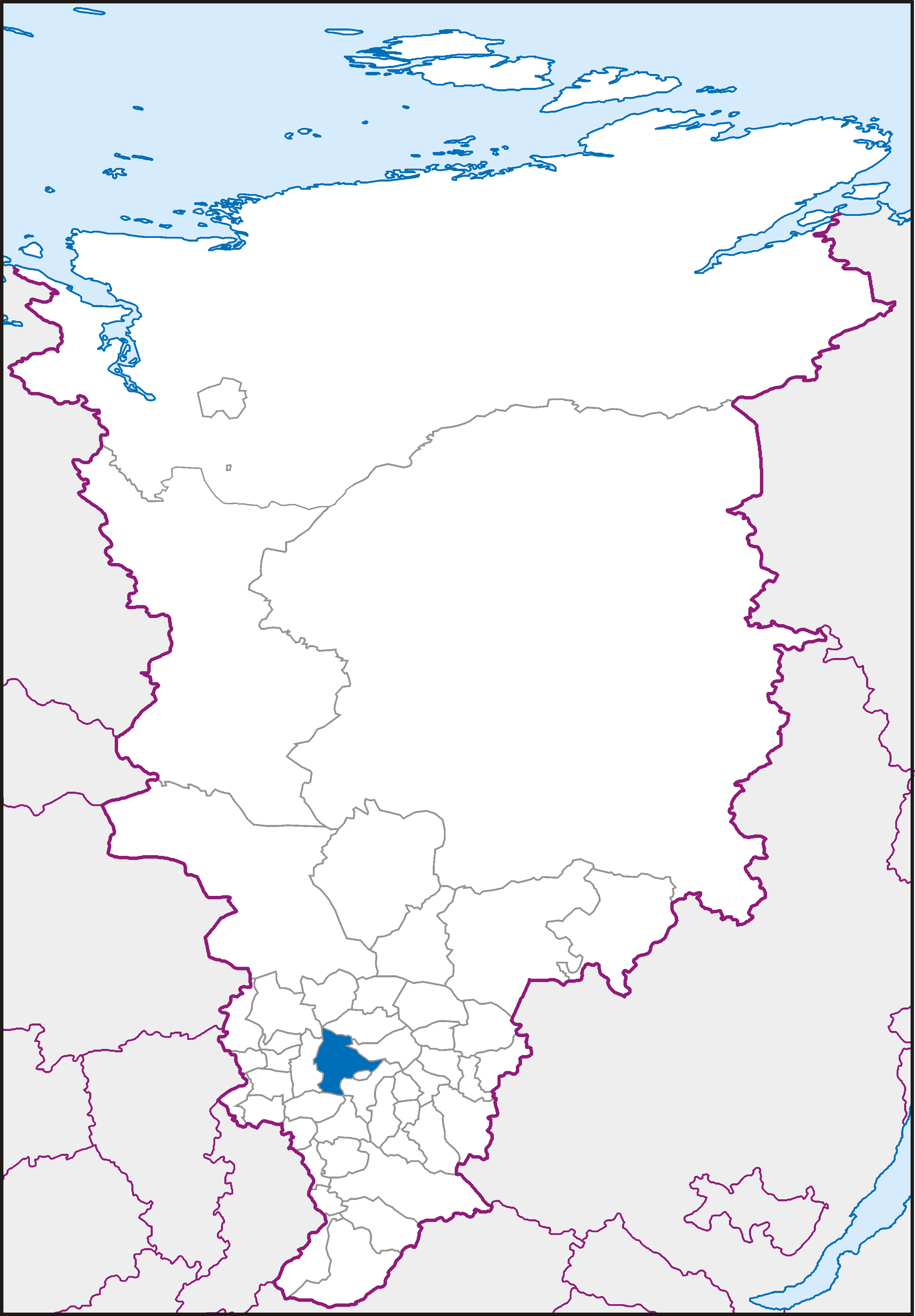 Map of Krasnoyarsk Krai in Albers Equal-Area Conic projection (Central Meridian = 95° E)